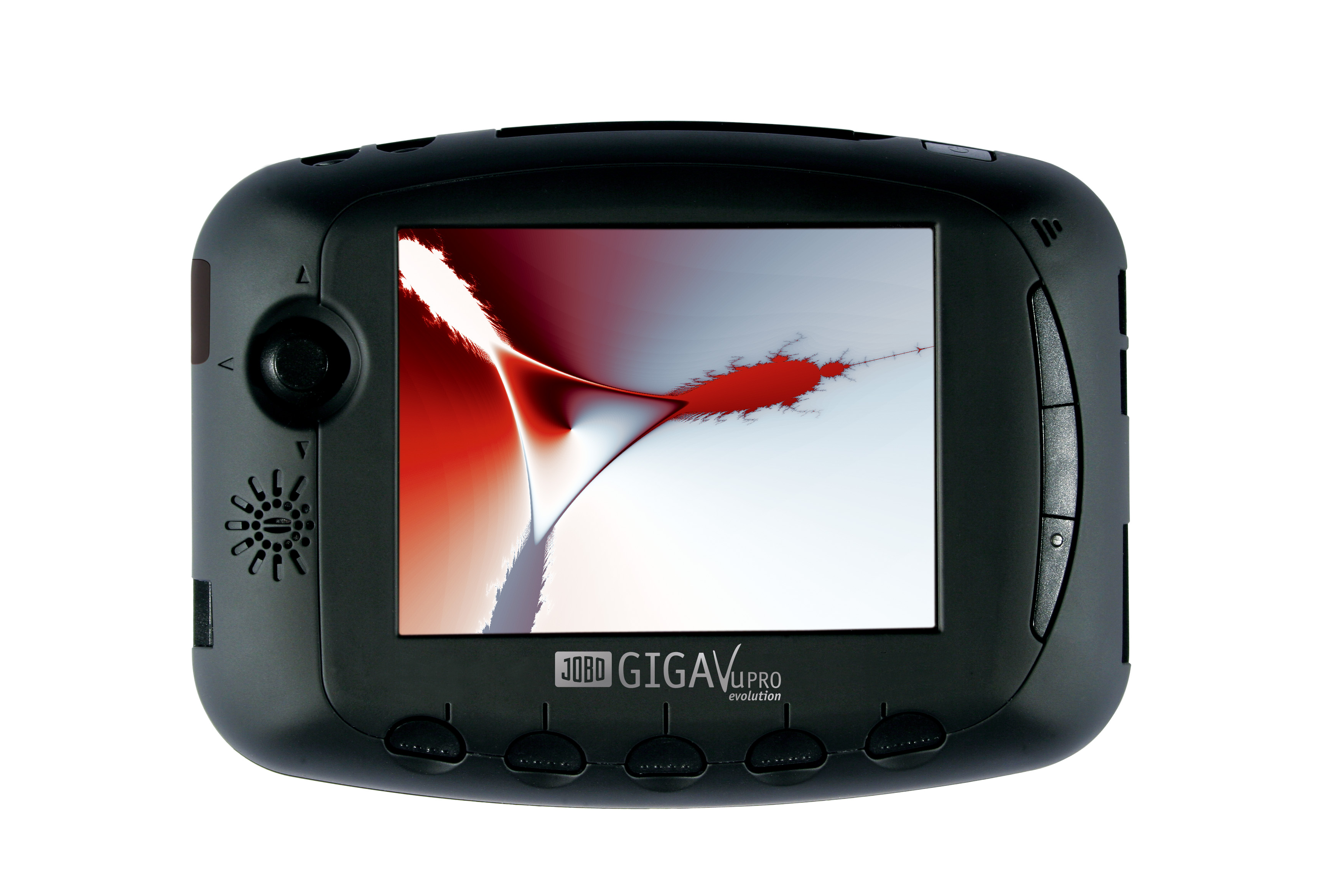 Jobo photo viewer, digital album and multimedia player